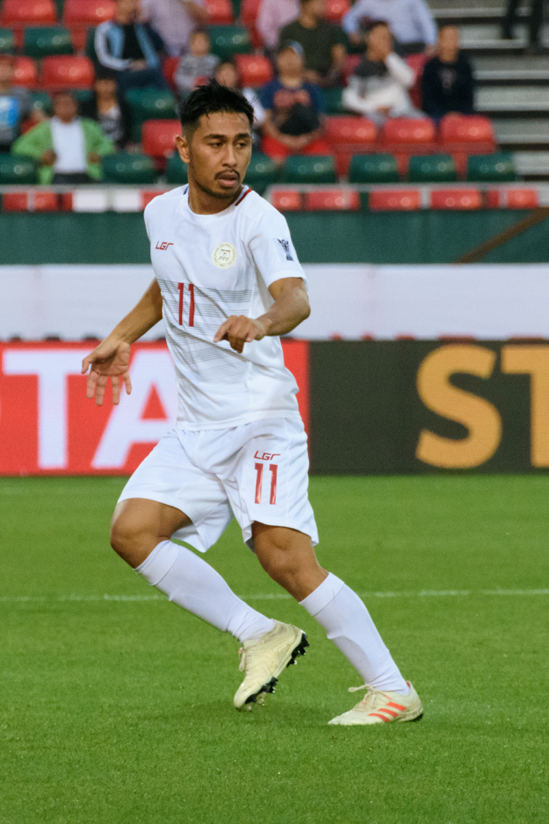 Daisuke Sato at the Asian Cup 2019